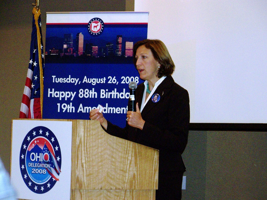 [:en:Jennifer Brunner] speaks at the Curtis Hotel in Denver, CO during the en:2008 Democratic National Convention